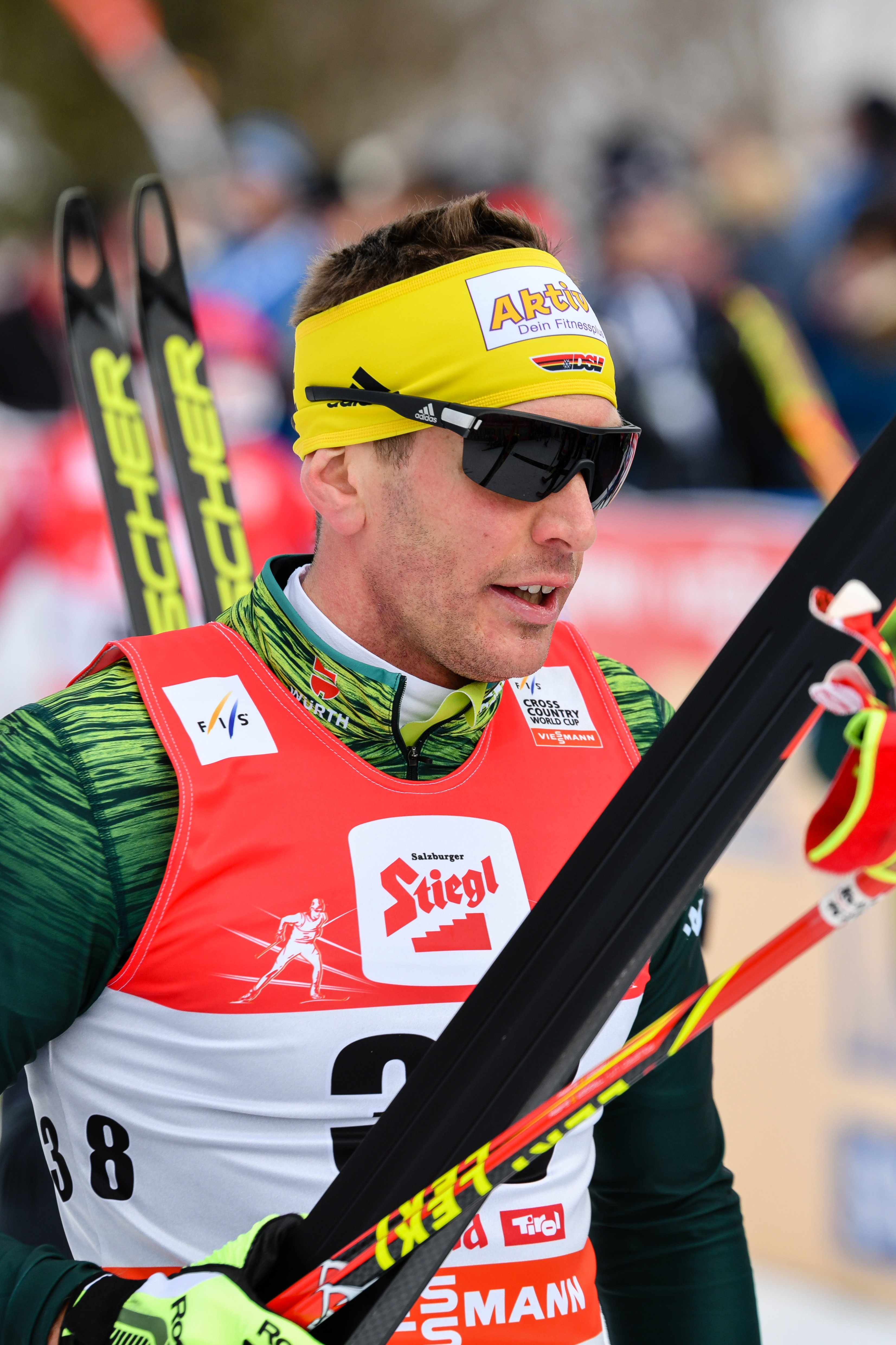 Seefeld-Triple 2018, third day January 28th. Picture shows KATZ Andreas (GER).